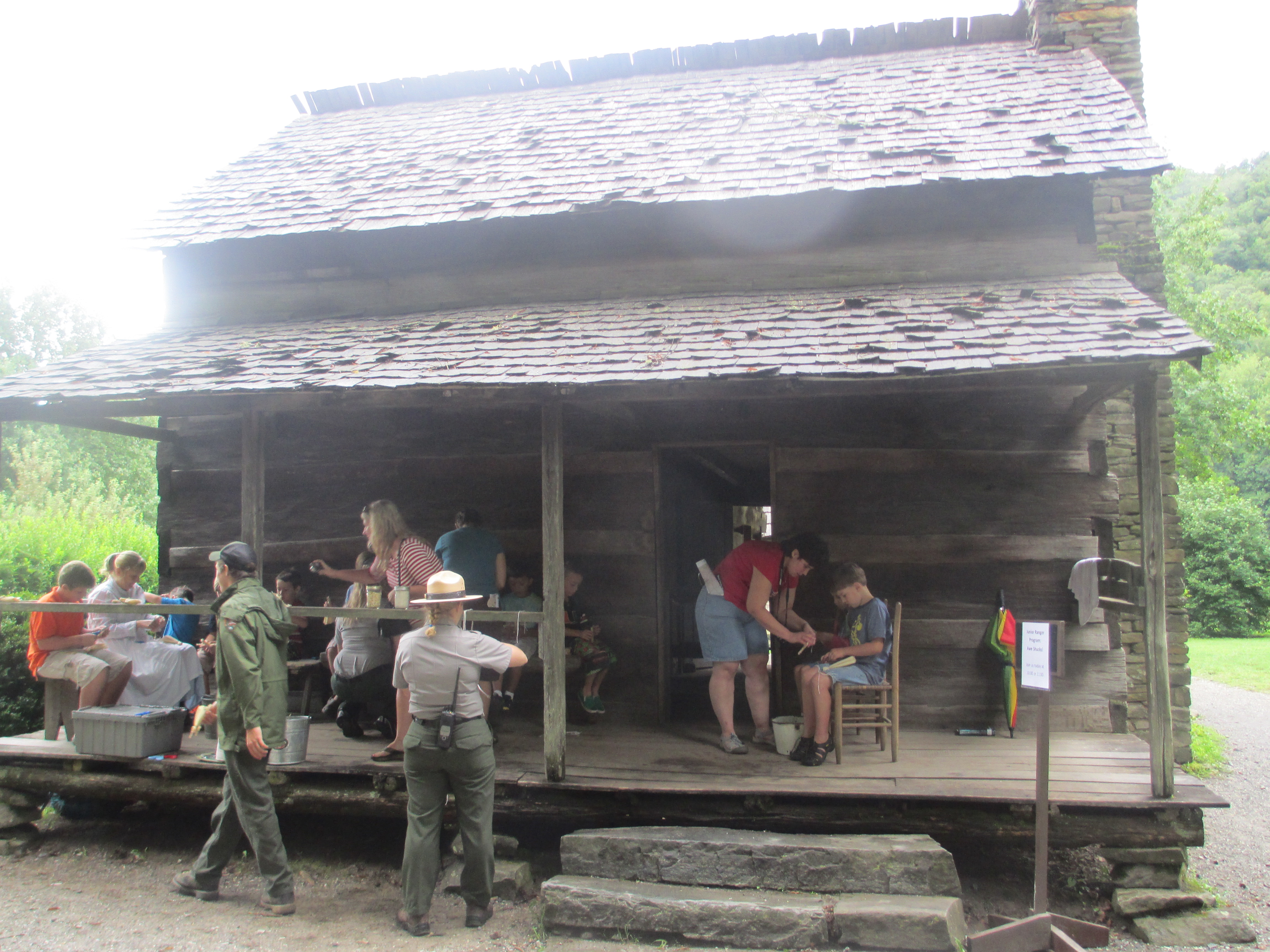 I took photo with Canon camera of homestead at Mountain Farm Museum in the Great Smokies.